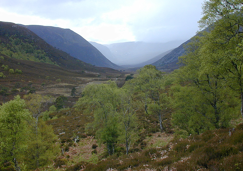 West of Alladale Lodge A view up a superb glen, the right to roam it recently won, but will be lost if the current owner is allowed to have his way.